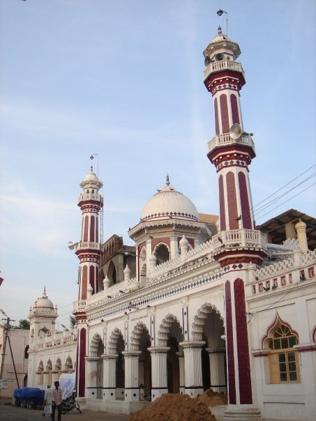 Karaikal Grand Masjid